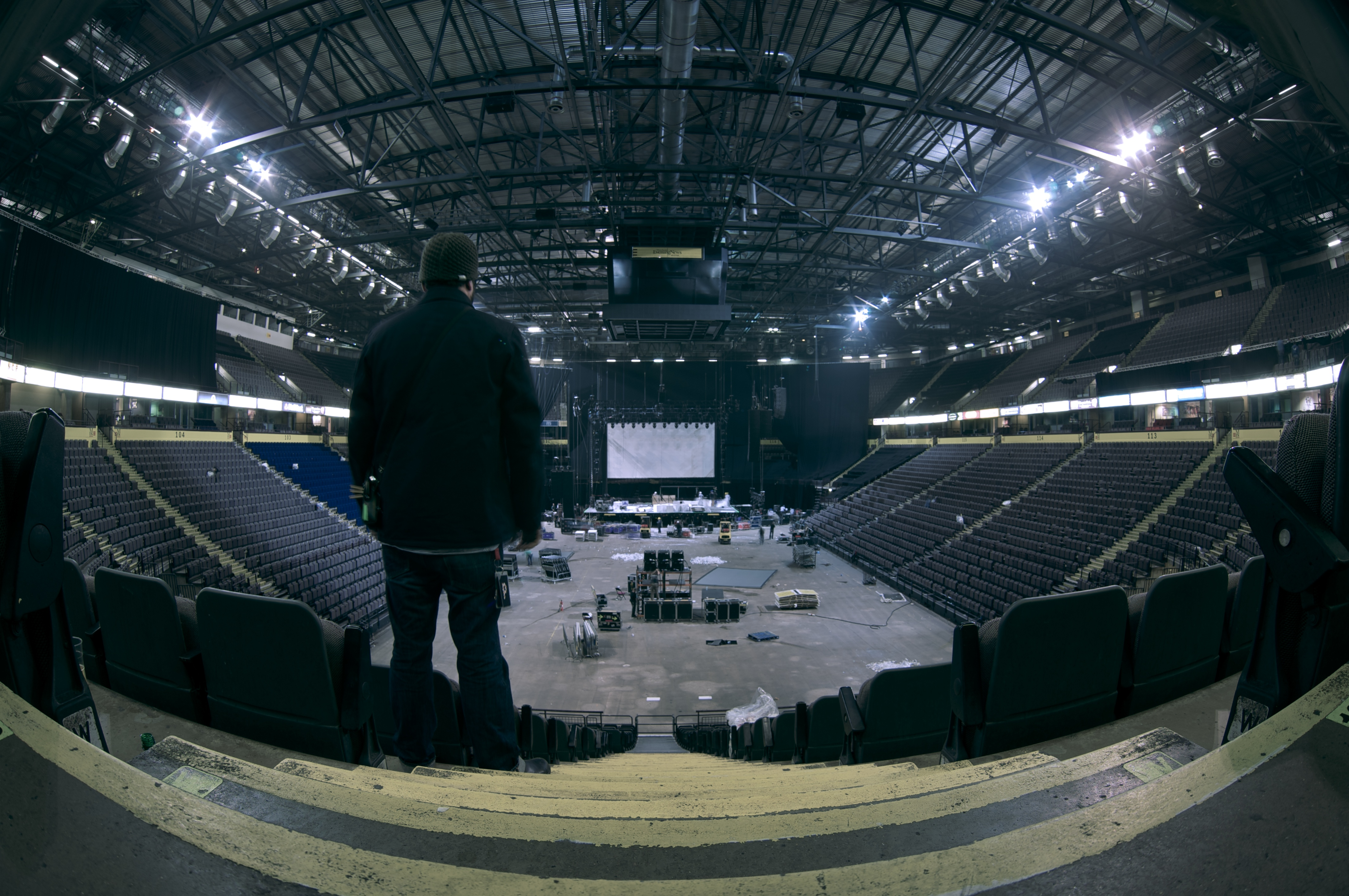 That MCR Arena in full.